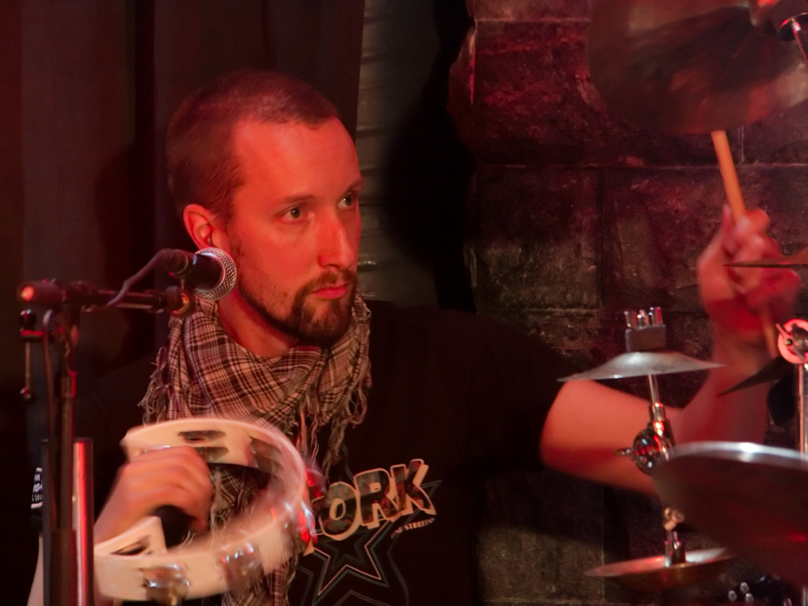 Tatu Ferchen playing with Hemma Beast at On the Rock club in Helsinki, on April 5th 2009.